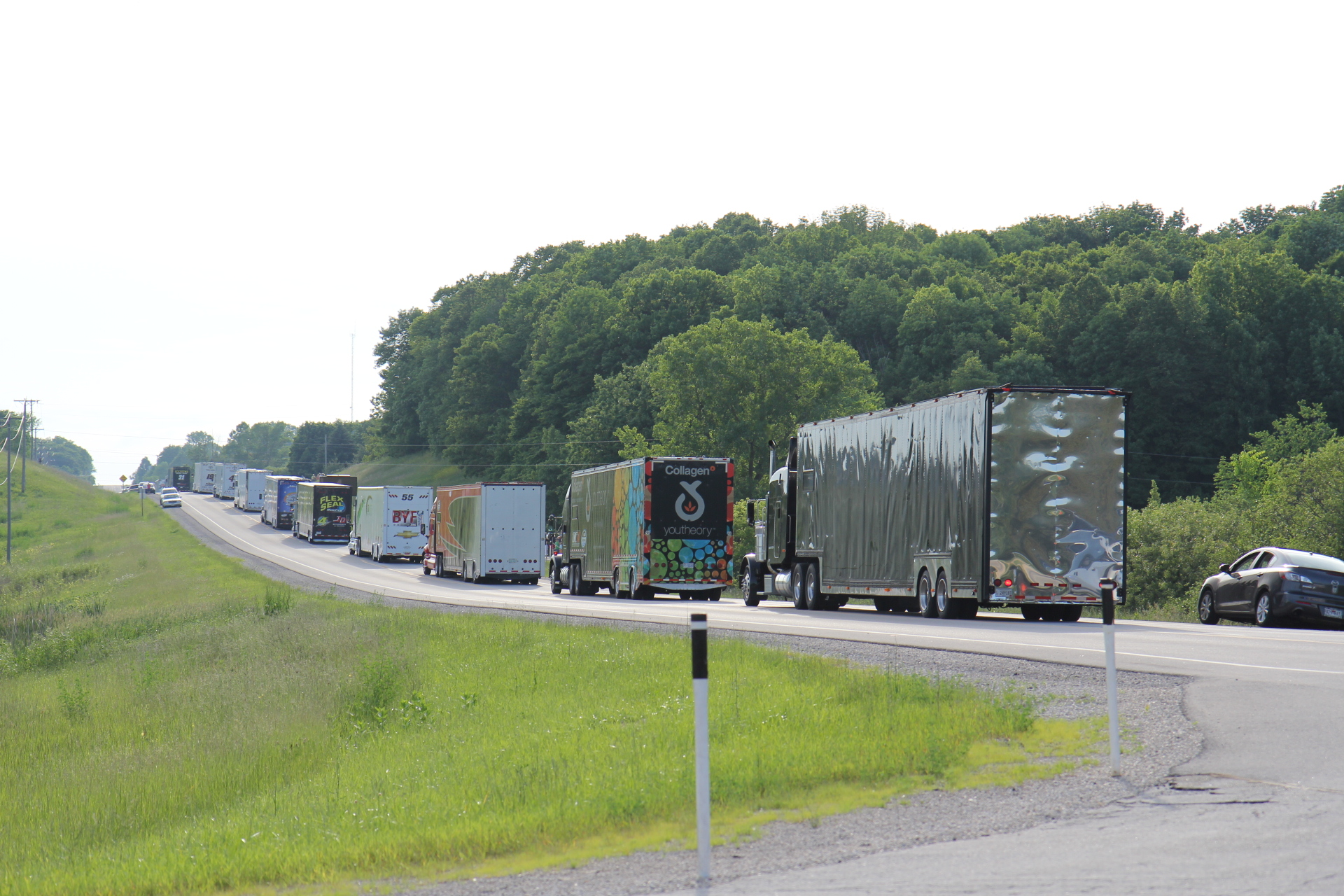 A long line of NASCAR haulers in a caravan just before they reached Road America for the 2014 Gardner Denver 200.